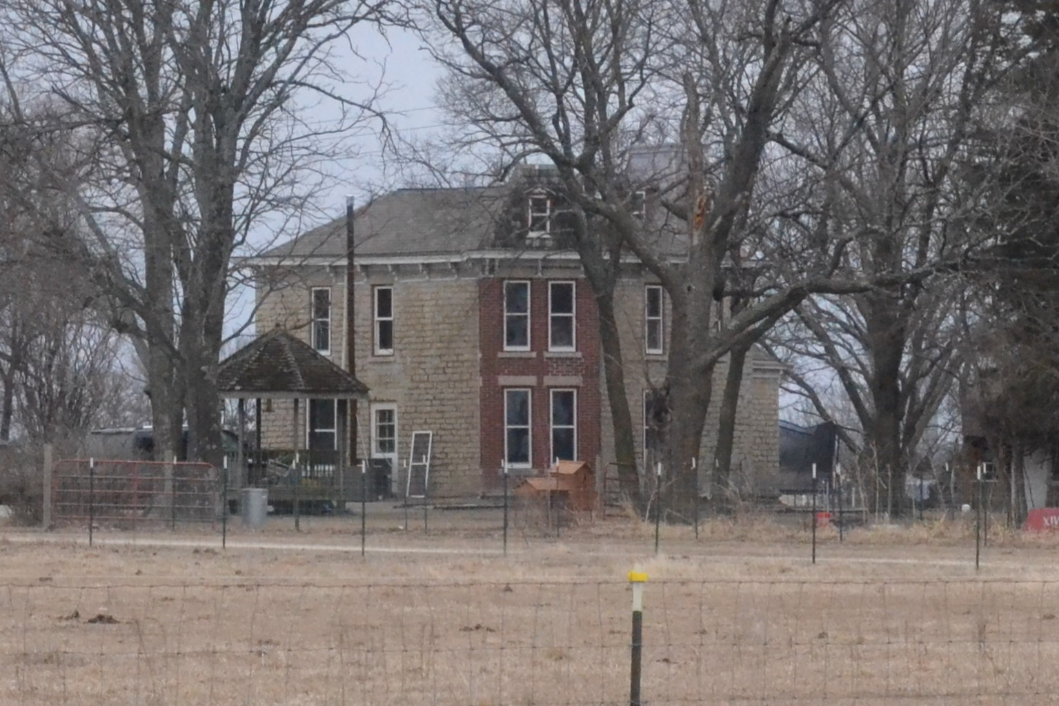 Horace G. Lyons House in rural Shawnee County, Kansas. Listed on the National Register of Historic Places.